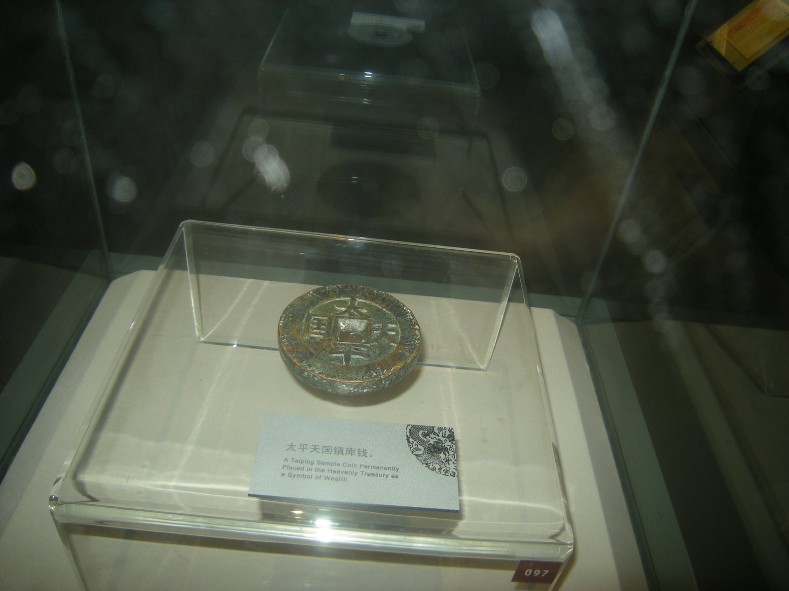 A Taiping sample coin permanently placed in the heavenly treasury as a symbol of wealth